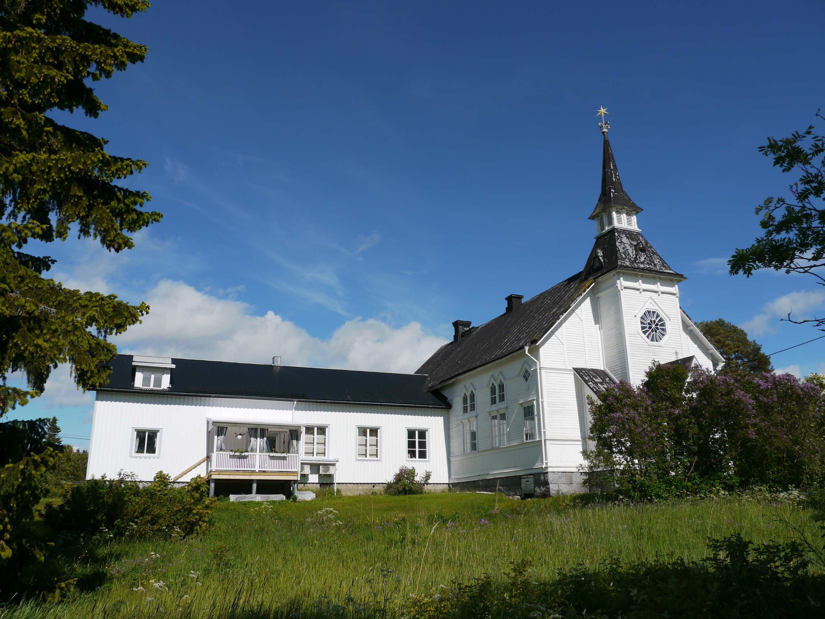 The Ebeneser church in Söråker, Sweden, seen from the left.